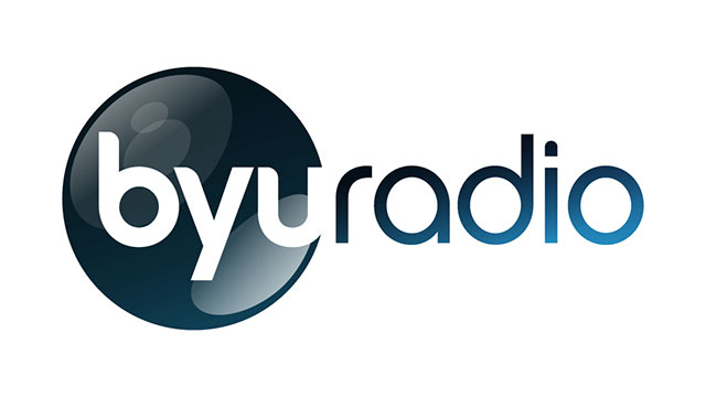 Official station logo for BYU Radio